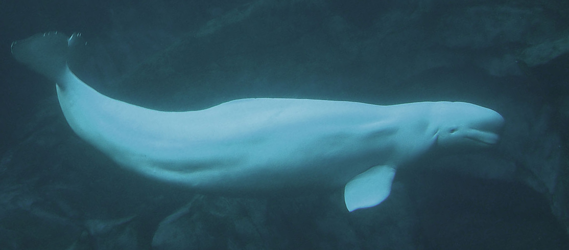 Beluga whale at the Atlanta aquarium. Derivative work of рhoto by Greg Hume (Greg5030)